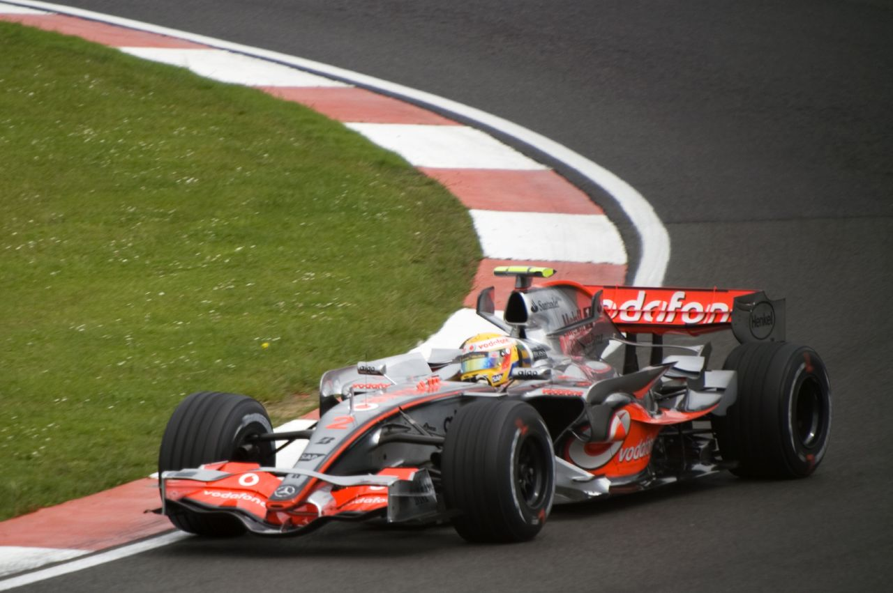 Lewis Hamilton driving for McLaren at the 2007 British Grand Prix.